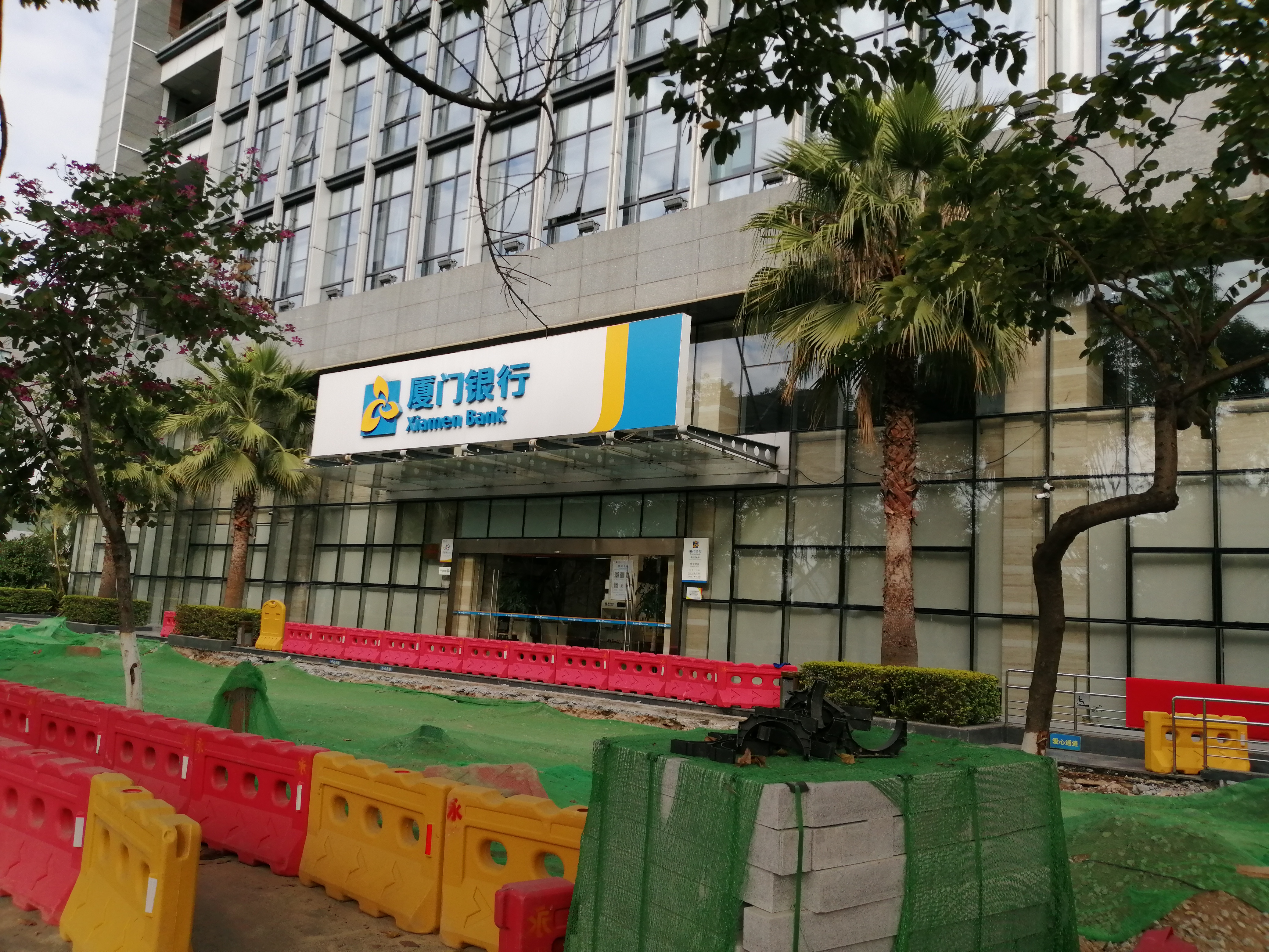 Headquarters of Xiamen Bank, located on Hubin North Road, Siming District. 中文（中国大陆）: 厦门银行总部，位于思明区湖滨北路